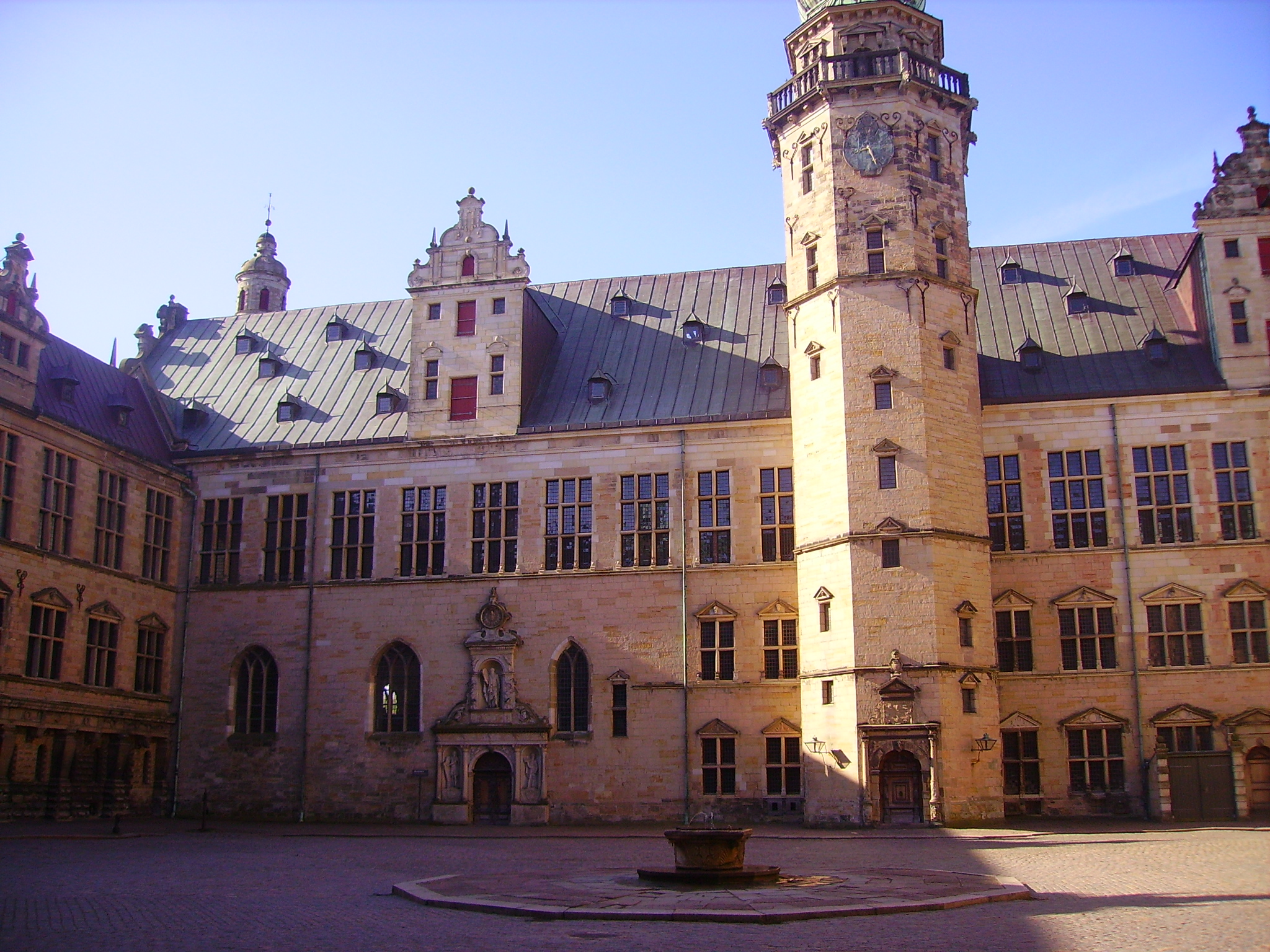 Courtyard of Kronborg Castle, Helsingör